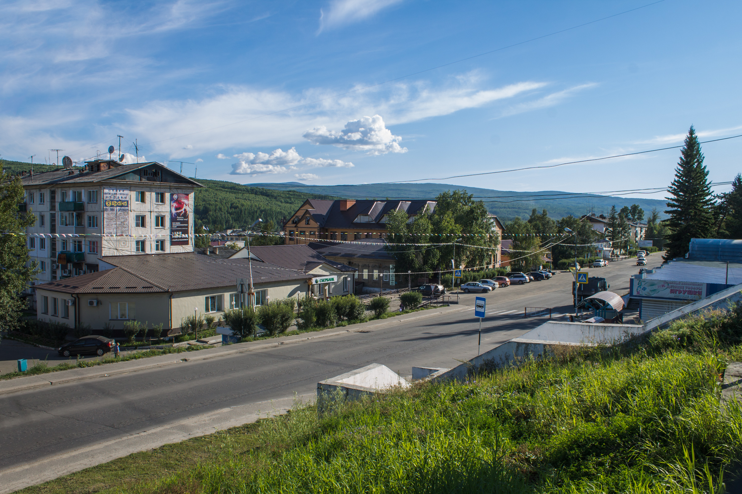 Бодайбо главная улица